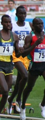 World athletics final Stuttgart 2007 1500m Suleiman Kipses Simotwo